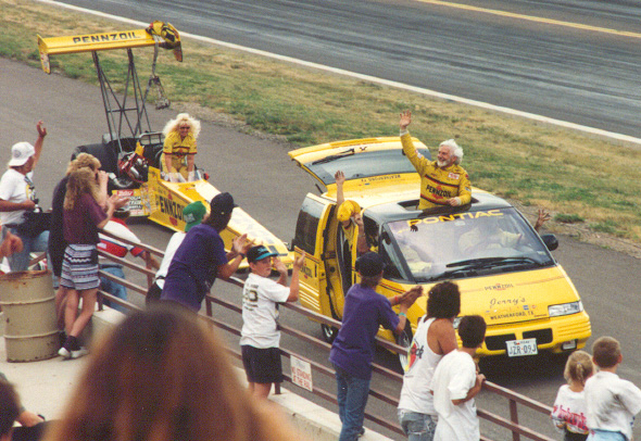 Eddie waves to the crowd as he is towed back to the pits at Denver's Bandimere Speedway. Wife Ercie is riding brakes in the dragster. He was the 1993 NHRA Top Fuel champion and was the first driver into the 4 second bracket.Eddie & Ercie Hill